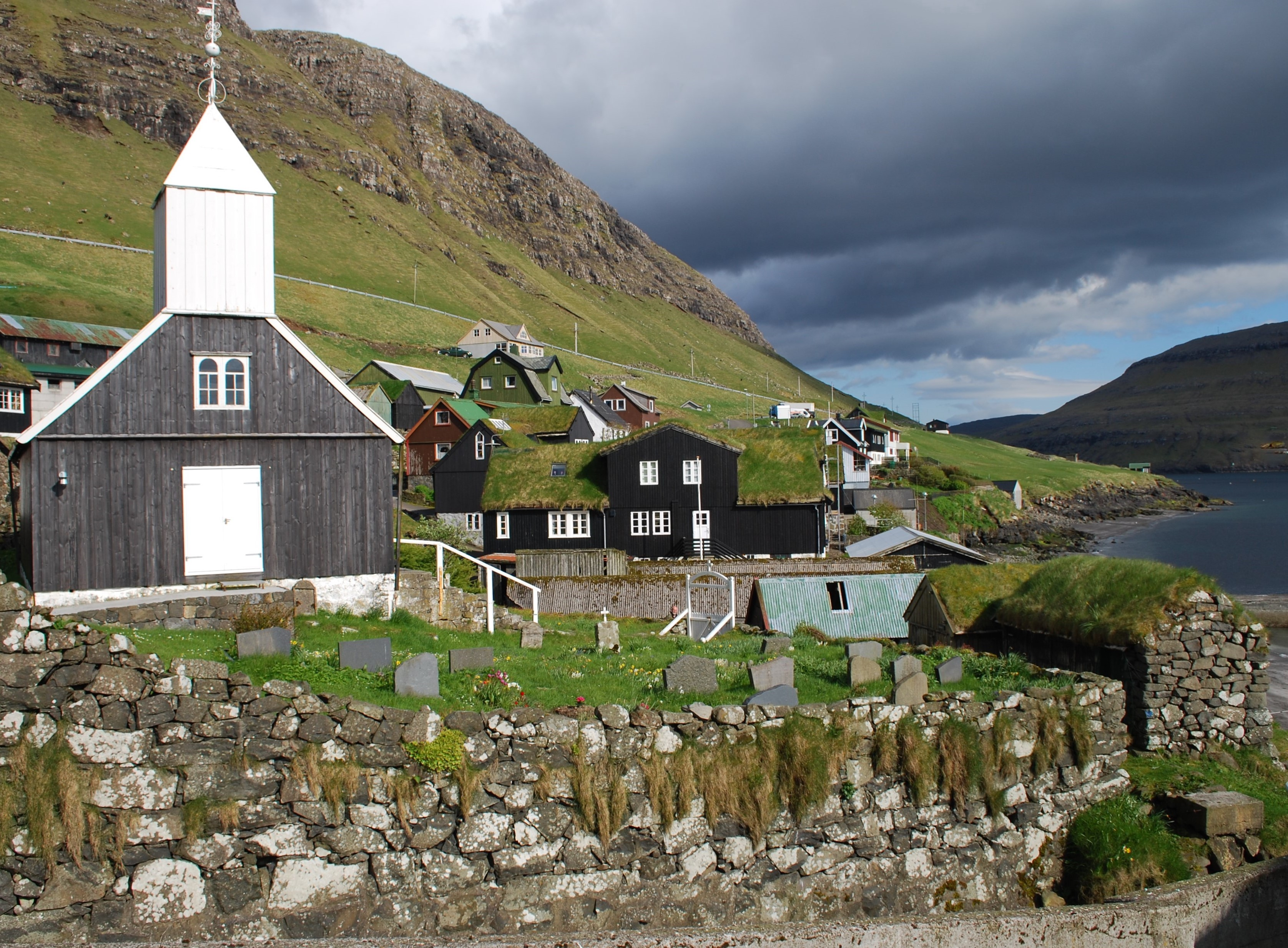 Bøur, Vágar, Faroe Islands